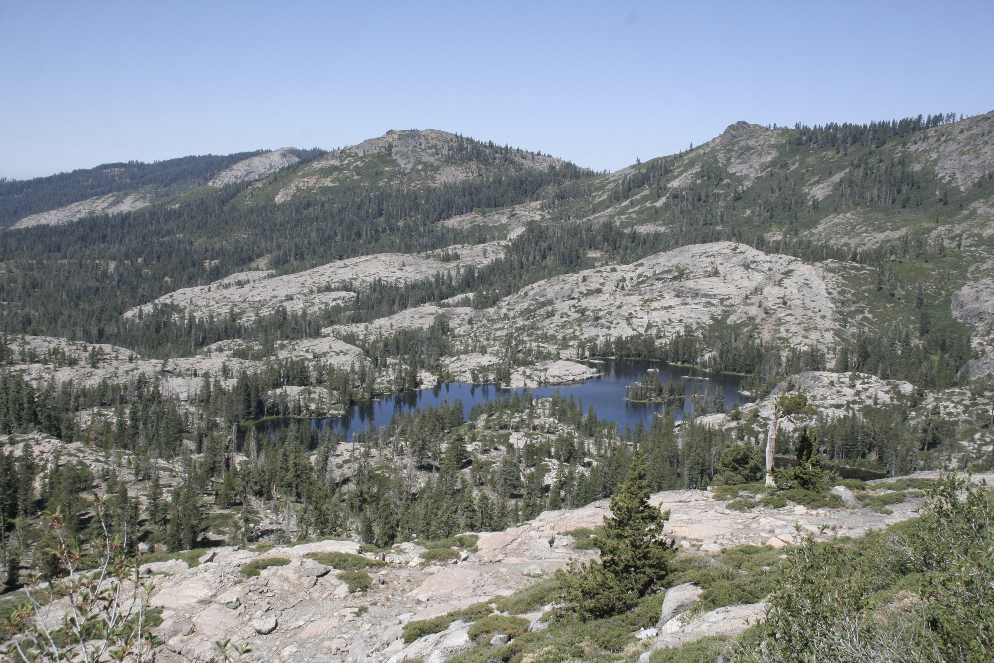 Beyers Lakes — lakes of the Sierra Nevada within the Tahoe National Forest, in Nevada County, California.